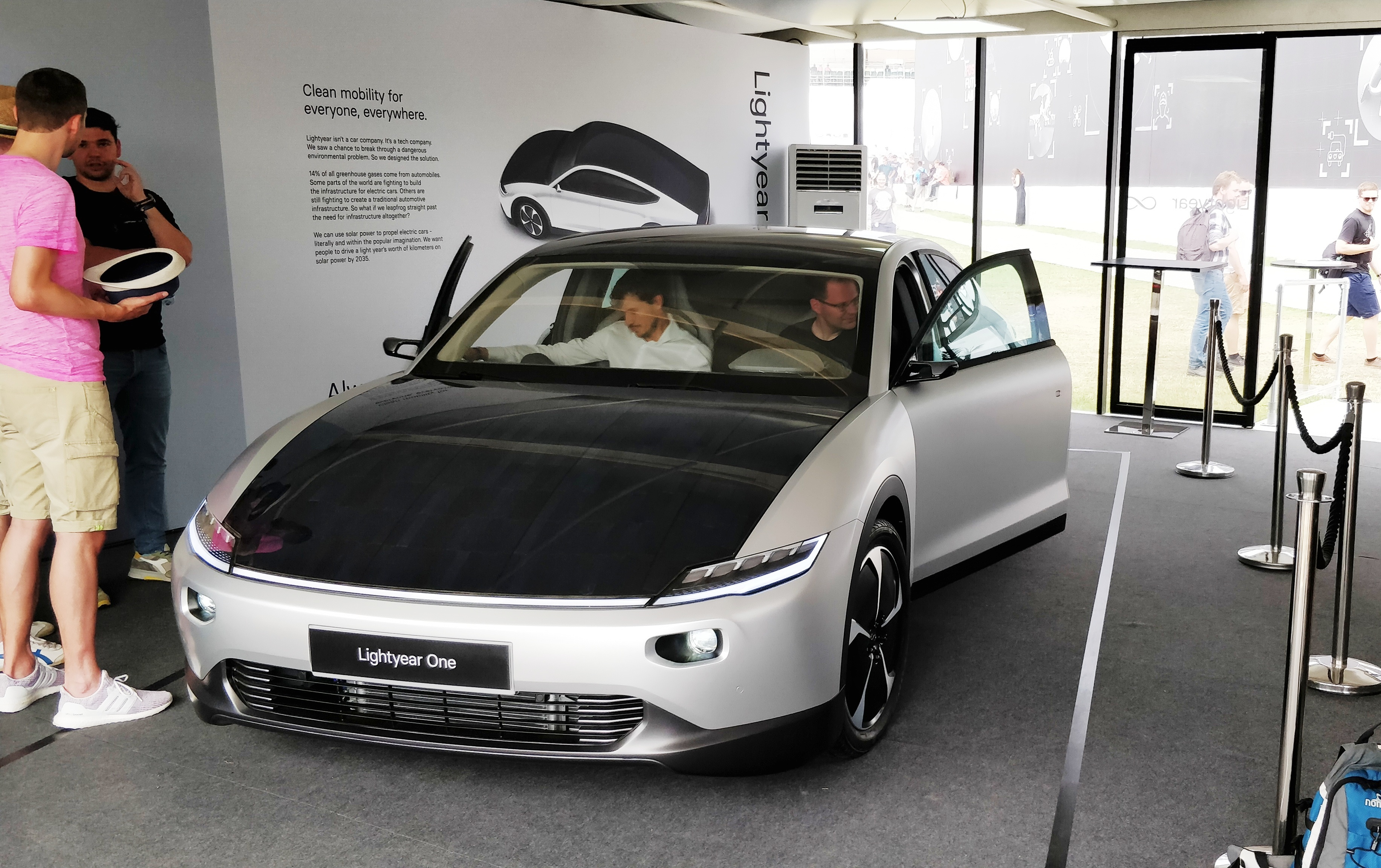 Lightyear One at Goodwood Festival of Speed